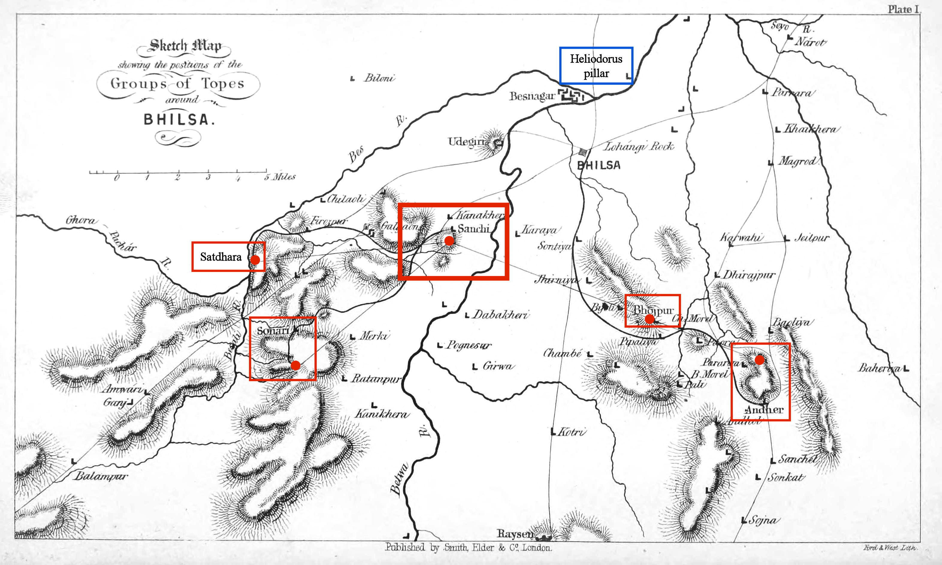 Heliodorus pillar and other monuments around Vidisha and Sanchi